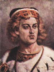 Boleslaus IV of Poland